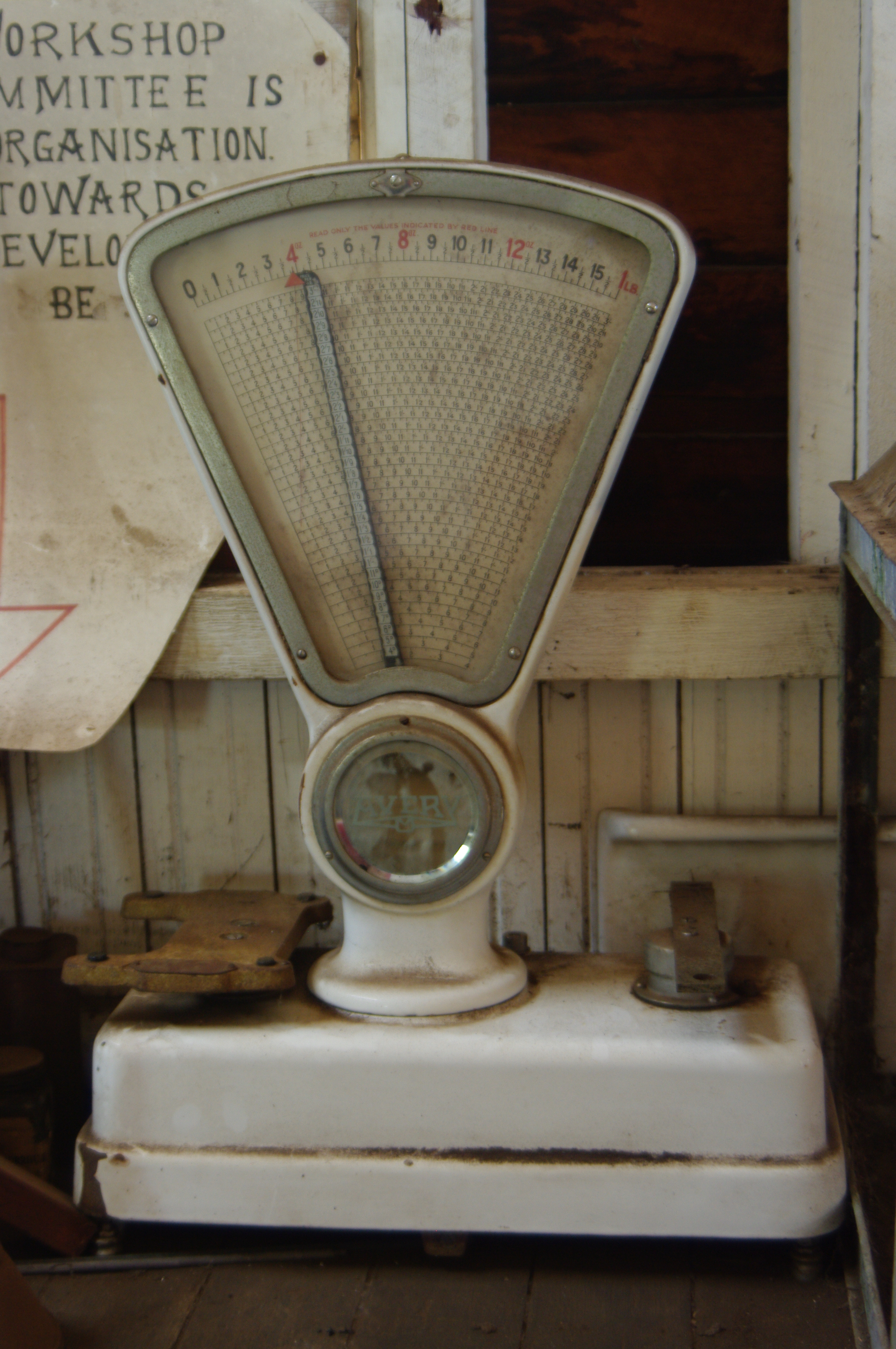 Yarloop railway workshops Yarloop, Western Australia Avery scale c1950